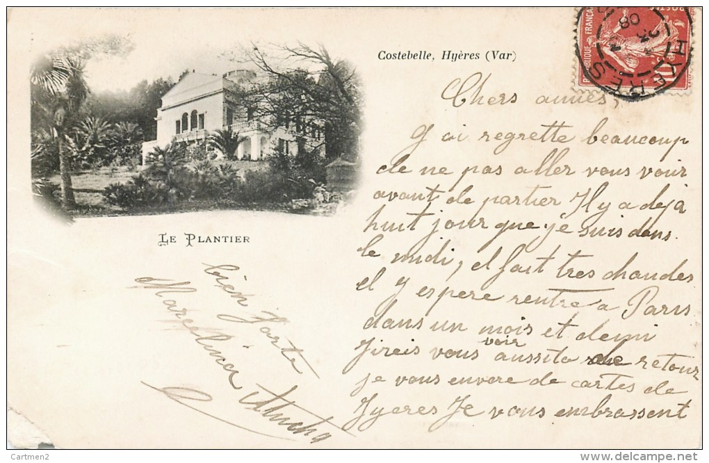 Le Plantier